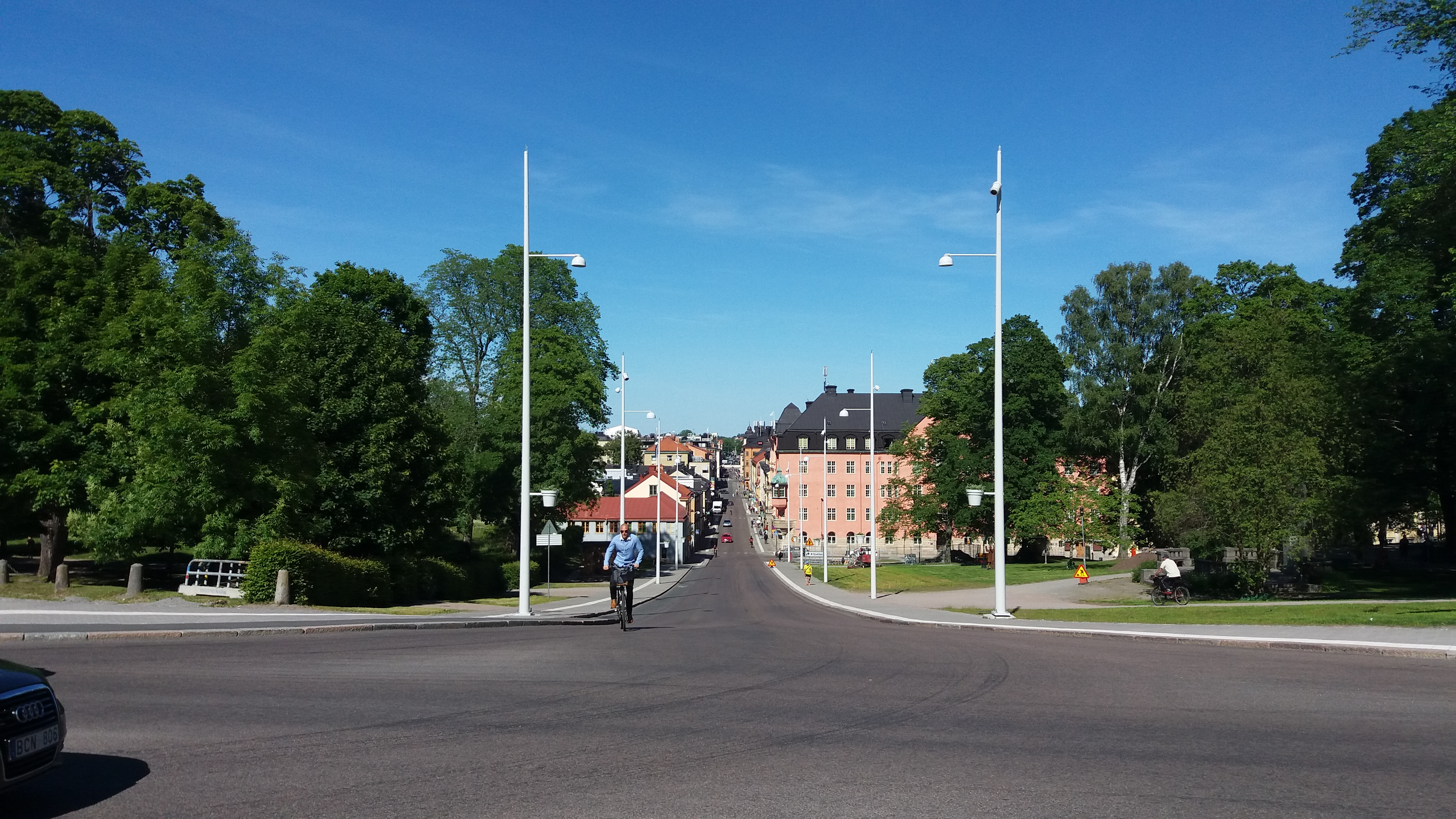 Drottninggatan, Uppsala.